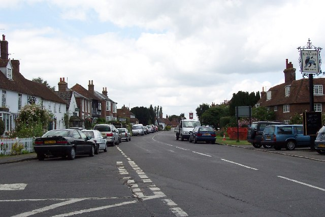 The main street, Appledore, Kent. Appledore is situated at the foot of the rising ground on the edge of Romney Marsh. Until the 13th century the River Rother used to flow into the sea at this point. The presence of the marsh made Appledore a somewhat less than pleasant place to live, a problem that was solved by the building of the Royal Military Canal, which helped to drain the marshland. The wide street was intended to accommodate the weekly market and an annual fair, granted to the village in 1359 by King Edward III. These continued to be held until the end of the 19th century. In 1380 the French sailed to Appledore and burned and pillaged the village, gutting the church. The church was subsequently rebuilt and enlarged.